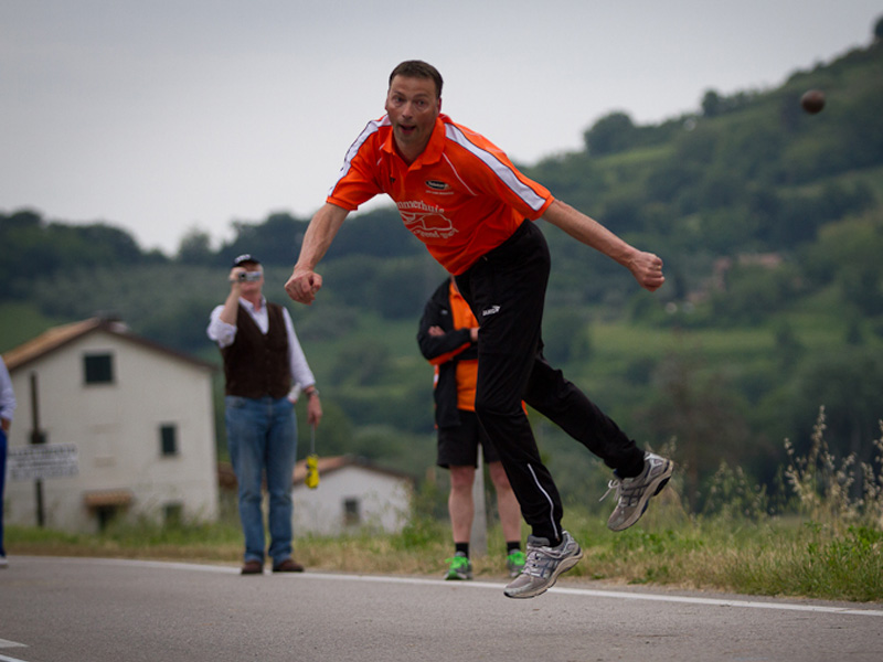 EK 2012